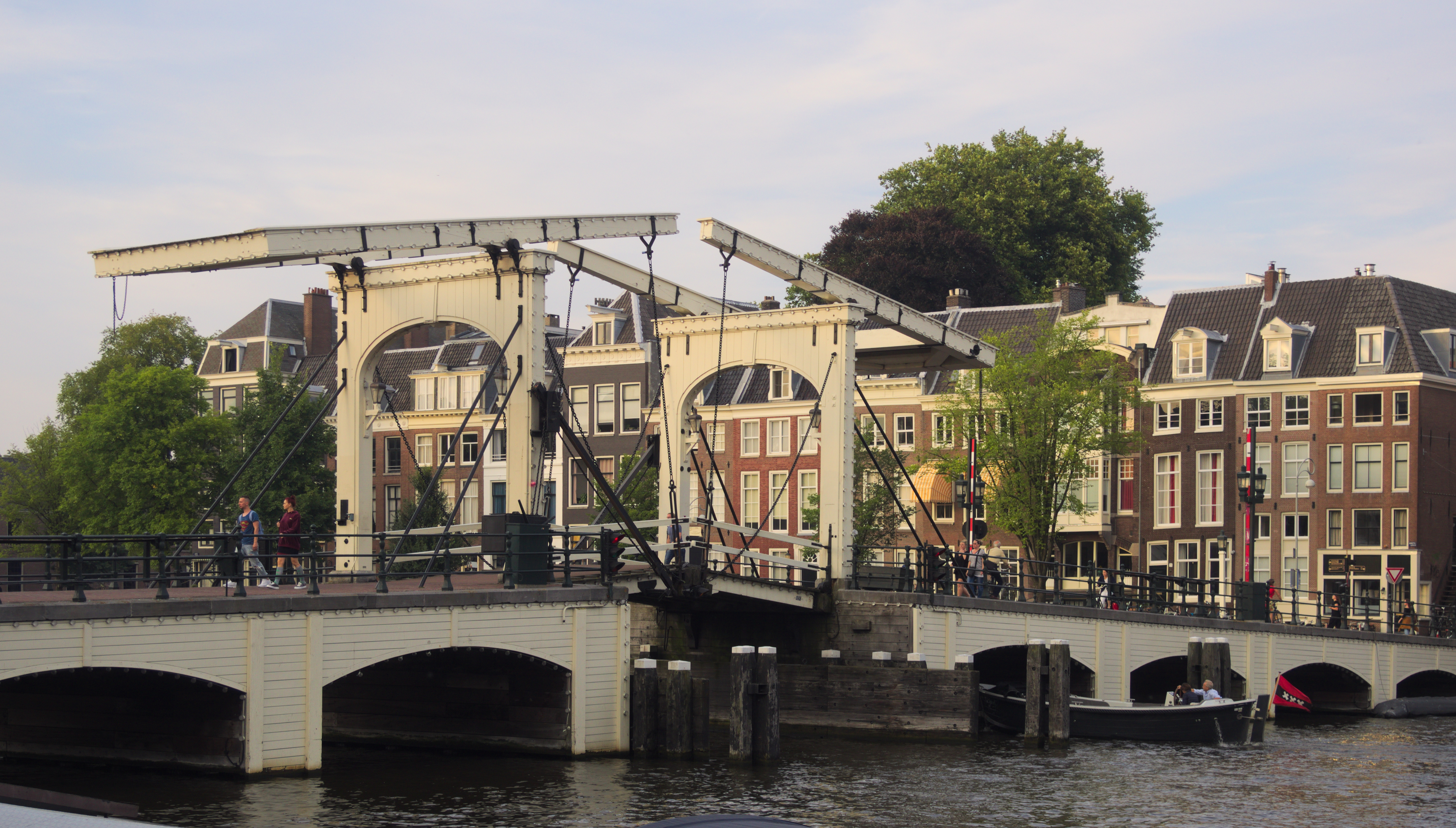 View of Magere Brug, Amsterdam